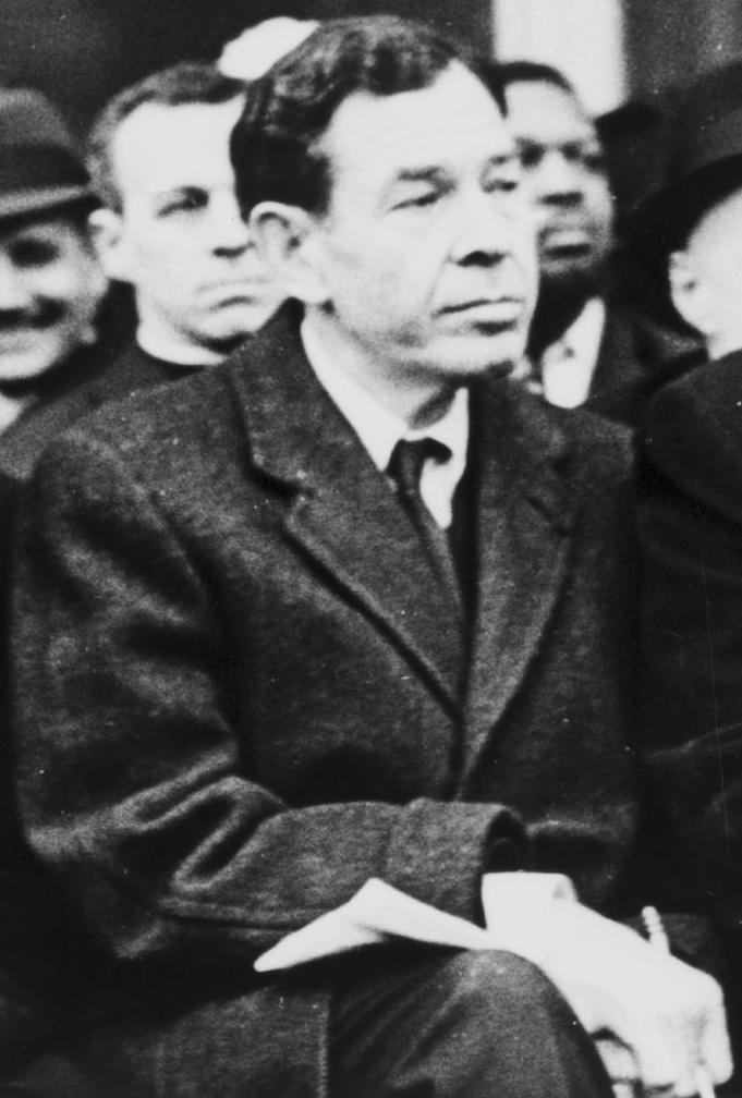 Rep. William Fitts Ryan, cropped from File:Rustin Young Ryan Farmer Lewis.jpg